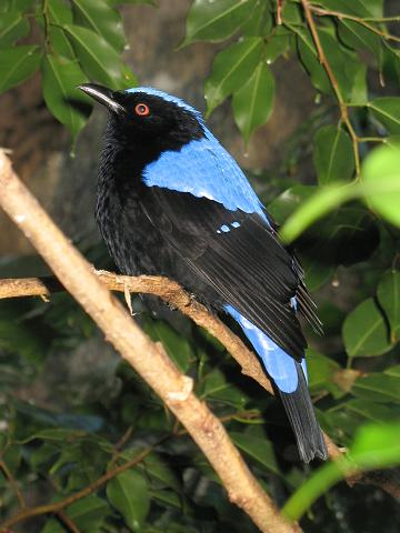 Asian Fairy-bluebird in Central Park Zoo, New York